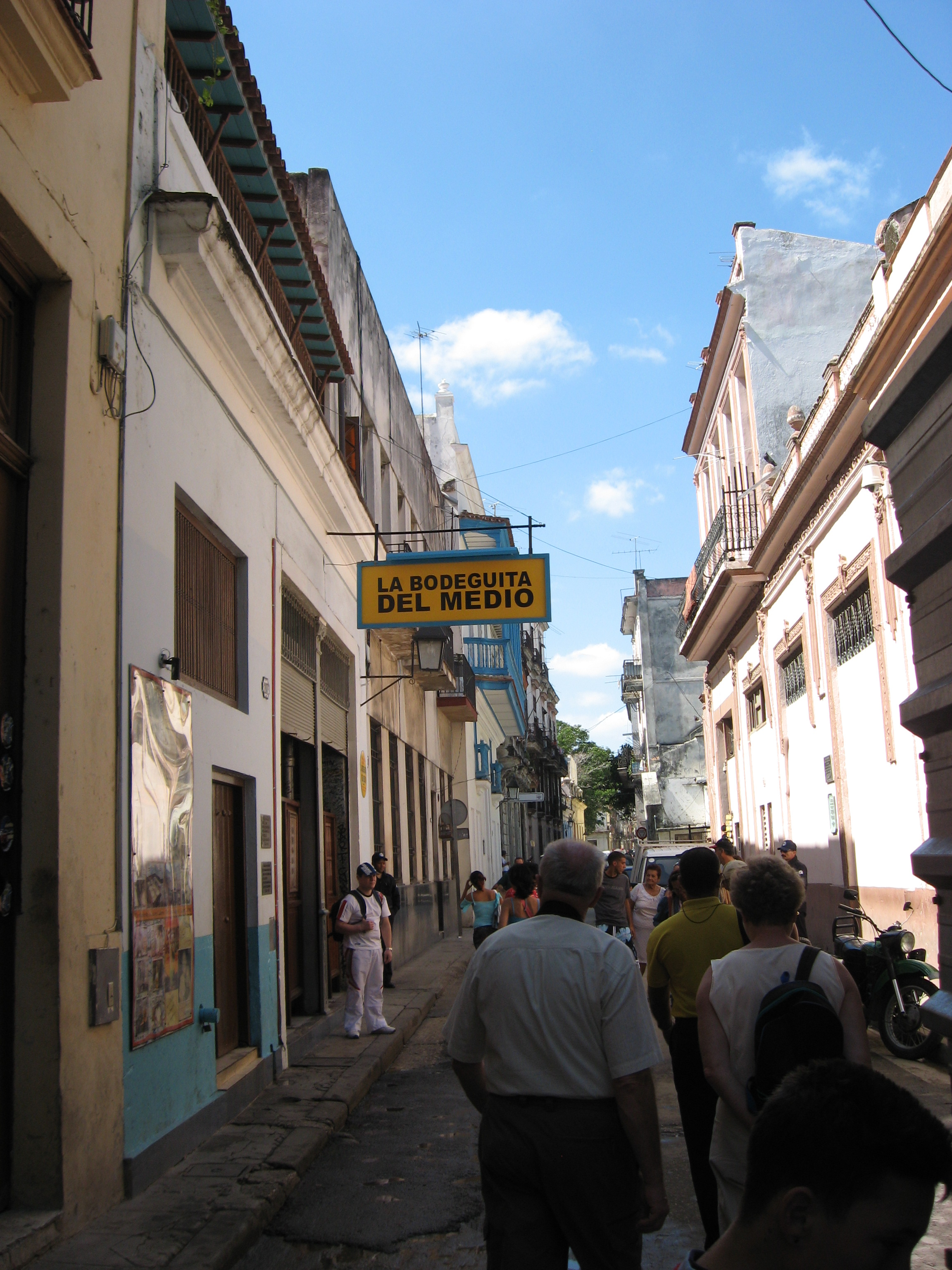 The Bodeguita del Medio, one of my favourite bars in the world. Sit where Allende may have sat and read the walls...